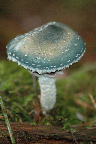 Stropharia aeruginosa from Commanster, Belgium. The determination of the species shown in this picture has been verified.